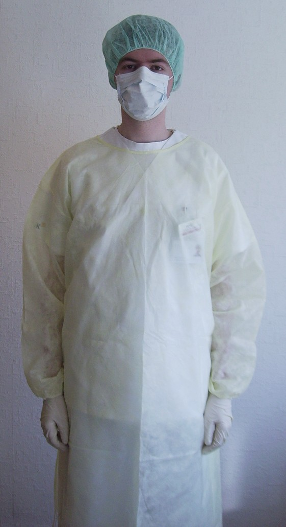 hospital staff member clothed in protective clothing. The full monty contains protective clothes, a mask, a coat and a cap and is used only once. It is used in handling with patients suffering from contagious diseases like MRSA.